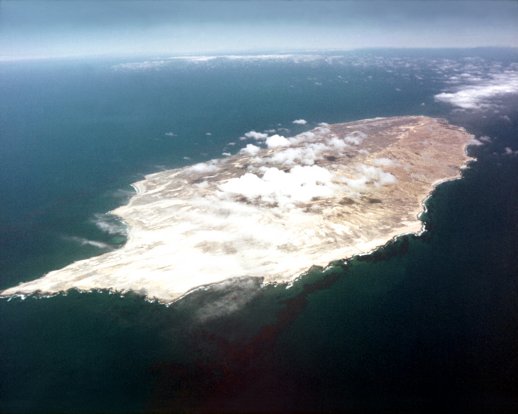 An aerial view of San Nicolas Island, Channel Islands of California.